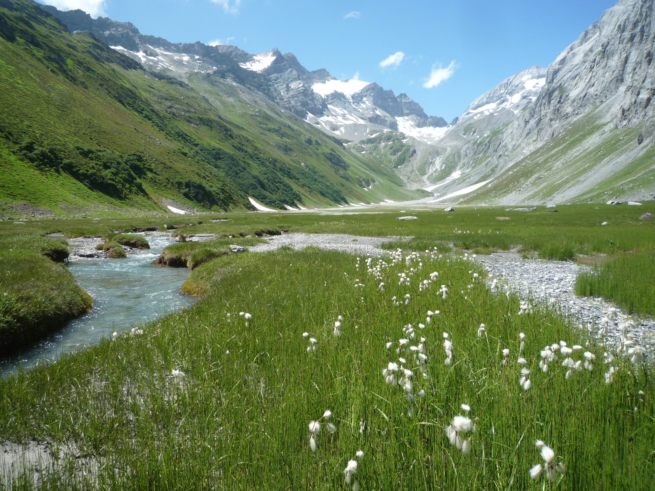 At Val Frisal - plain of Frisal holds sources of crystal clear water while the water form the melting glaciers reaches the end of the plain only in the afternoon - big amounts of the water of the rear areas flow underground.